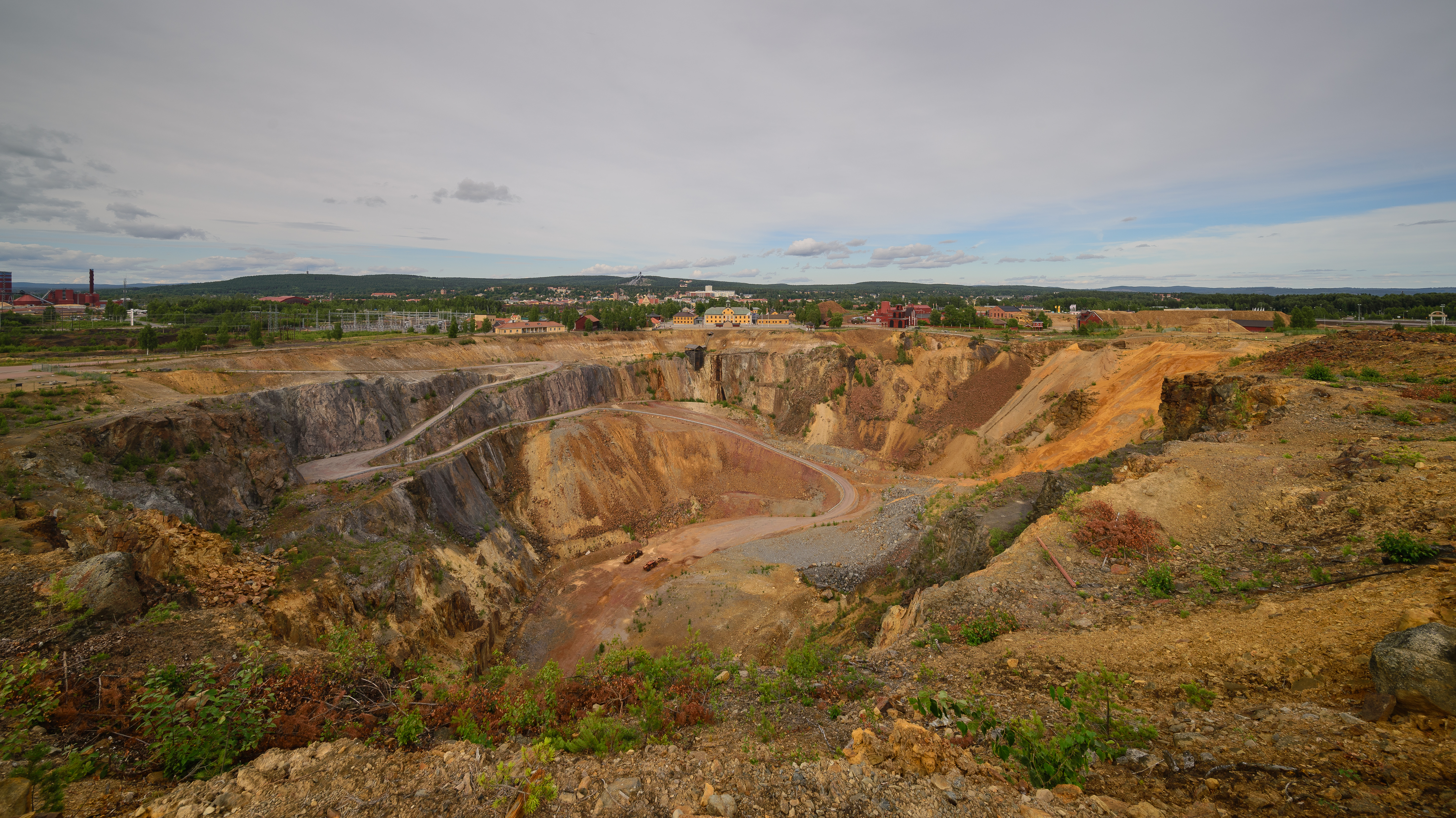 The mining excavation known as the Great Pit in Falun with the historic mining town of Falun in the background. Part of the World Heritage site "Mining Area of the Great Copper Mountain in Falun.